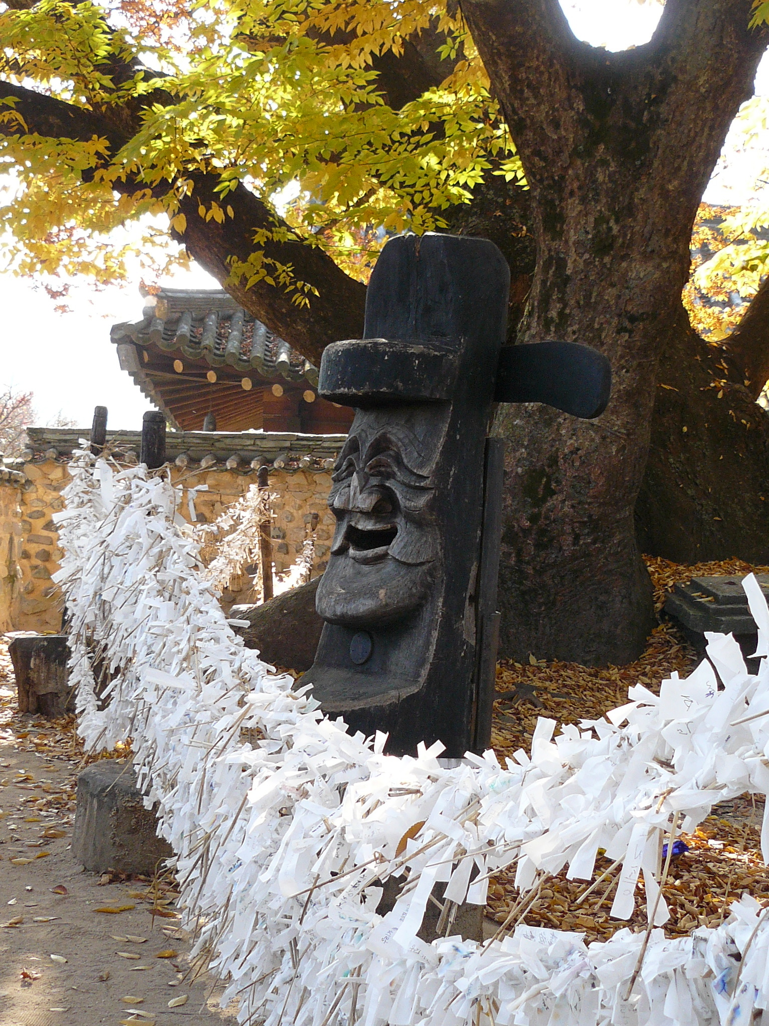 A jangseung (totem pole) at Hahoe Folk Village, Andong, South Korea.